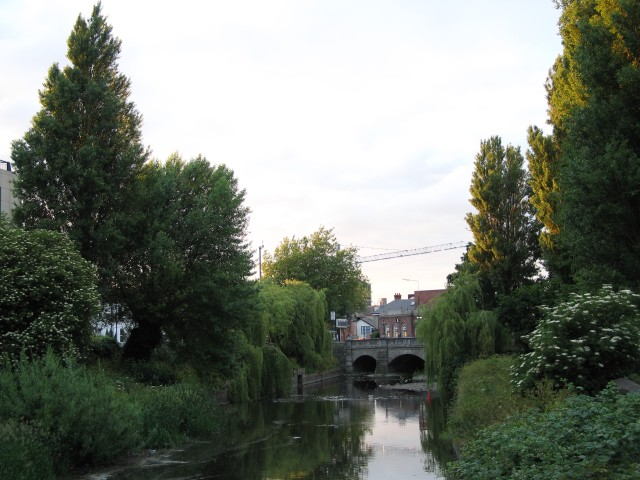 Ball's Bridge over the River Dodder at Ballsbridge, County Dublin, Ireland